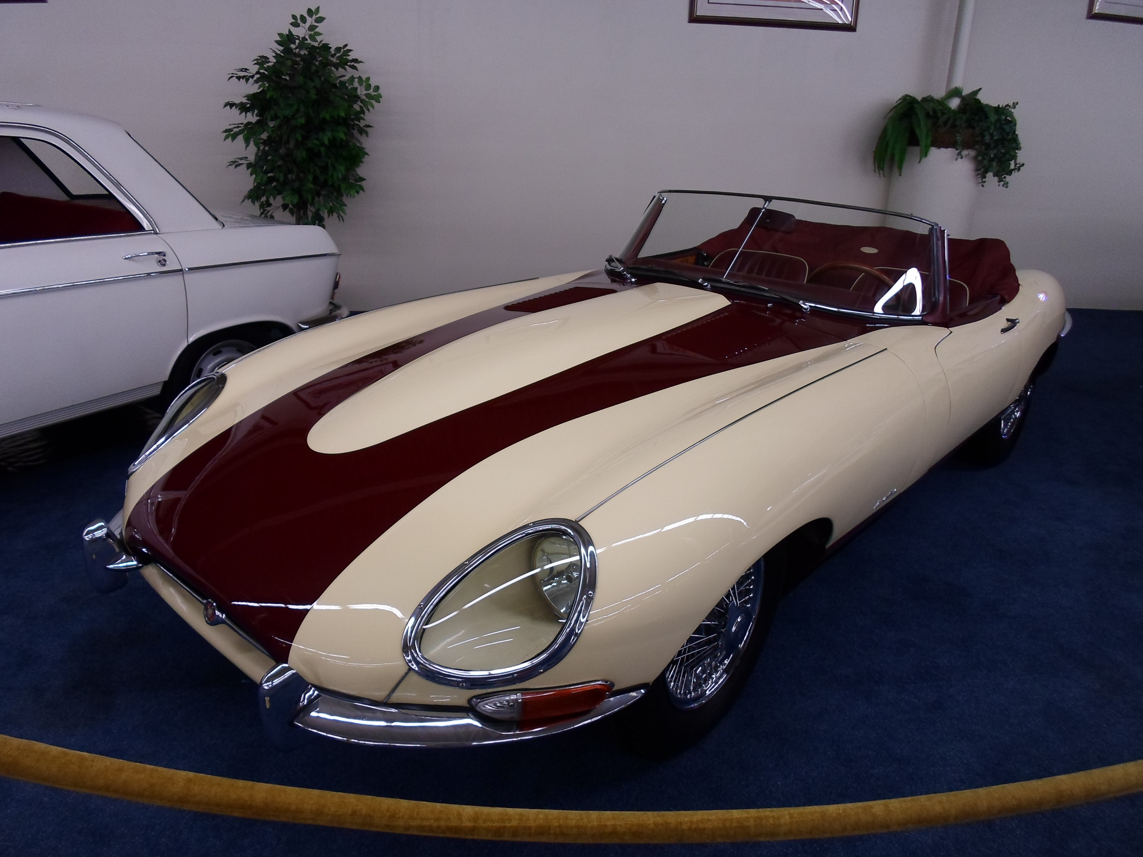 1964 Jaguar E-Type customized by French designer Bouillot Helsel. Improvements such as five speed gearbox, uprated suspension, more luxurious interior and visual changes made it cost three times the usual E-Type cost.